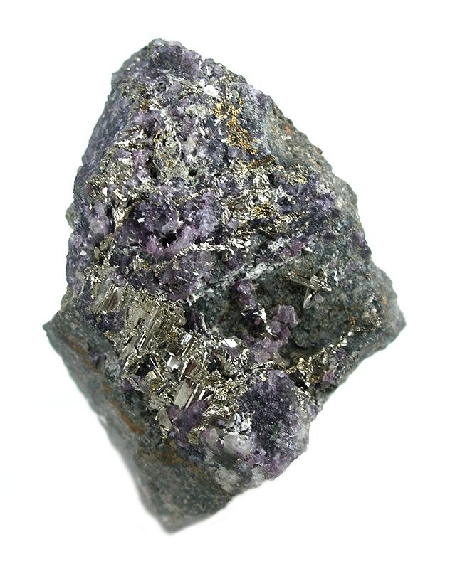 Calaverite, Fluorite Locality: Doctor Mine (Jackpot Mine), Cripple Creek District, Teller County, Colorado, USA (Locality at ) Size: 3.7 x 2.7 x 2.6 cm. An unusually attractive small miniature with very bright calaverite, both massive and crystallized, mixed with massive purple fluorite. The freestanding calaverite is 2.5 mm. The cluster of aggregate crystals is about 1 cm across. Ex. Rice Northwest Museum Collection.